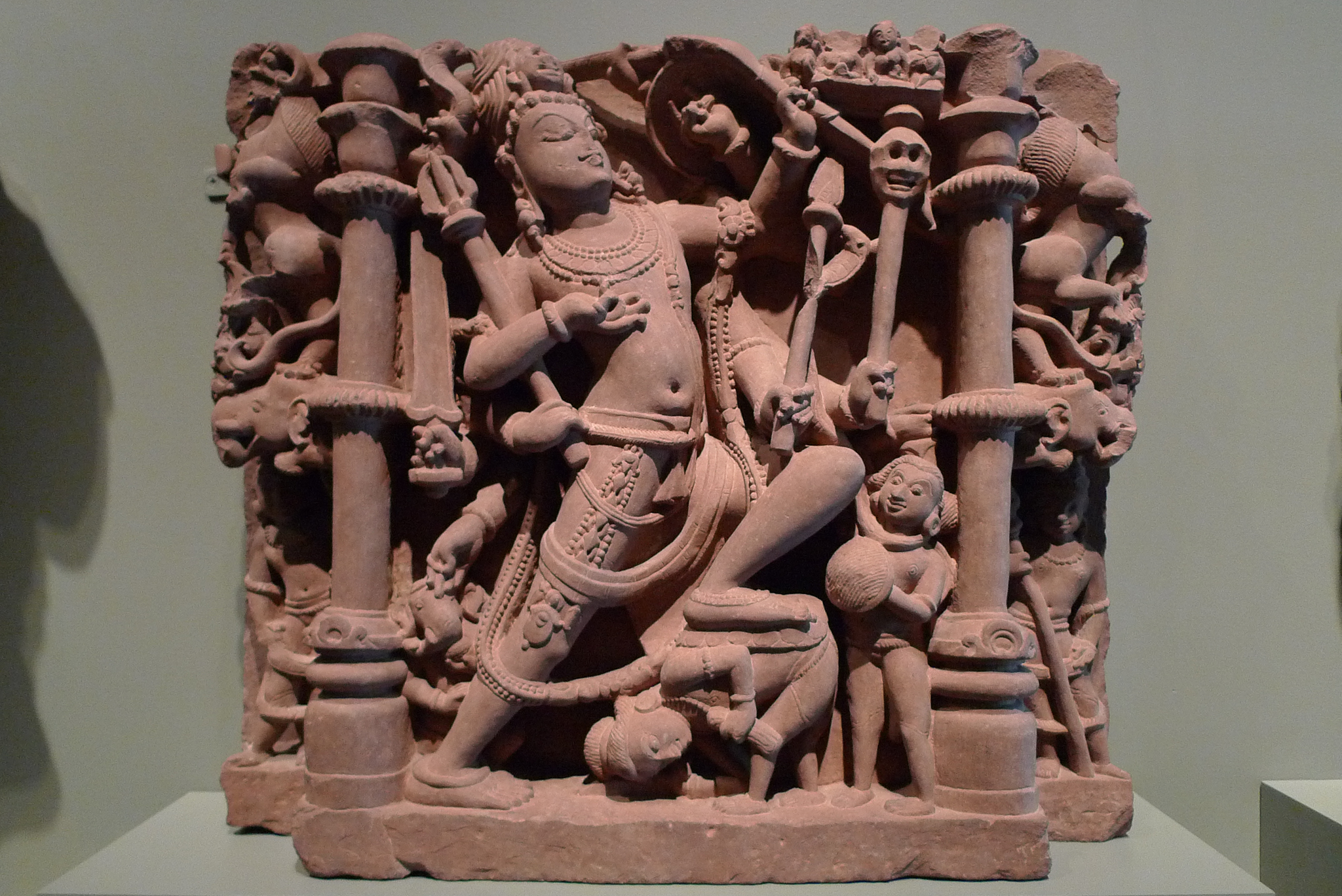 From the permanent collection of the Asian Art Museum in San Francisco.